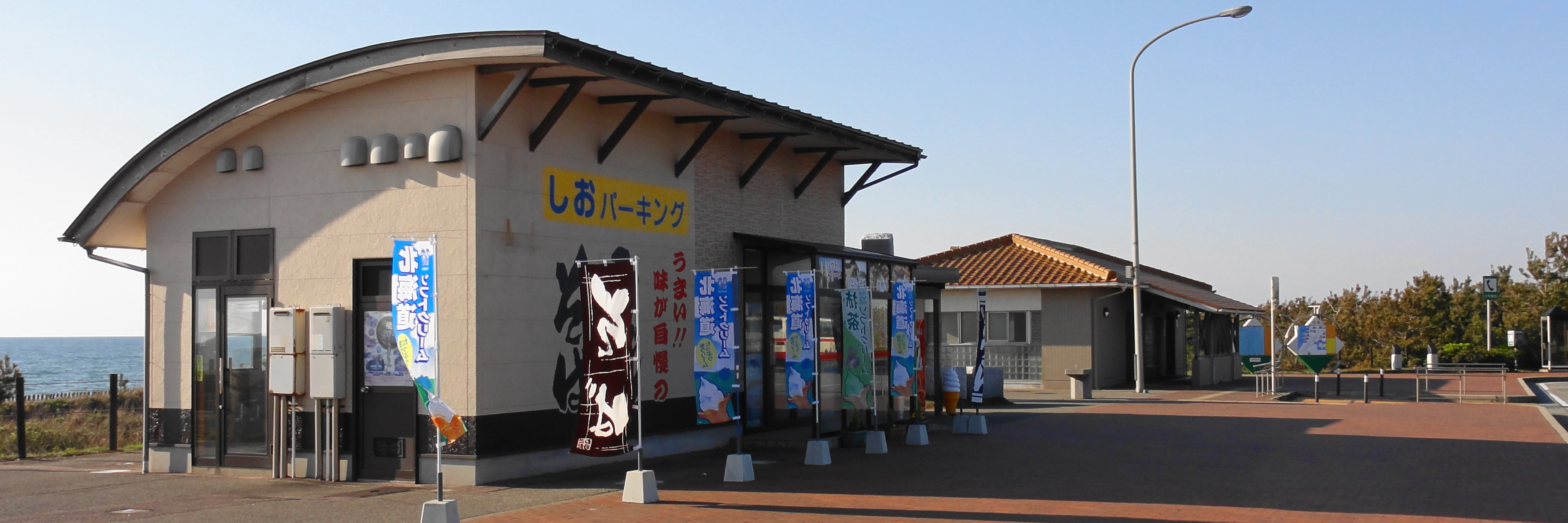 Shio Parkking Area ,Ishikawa prefecture, Japan